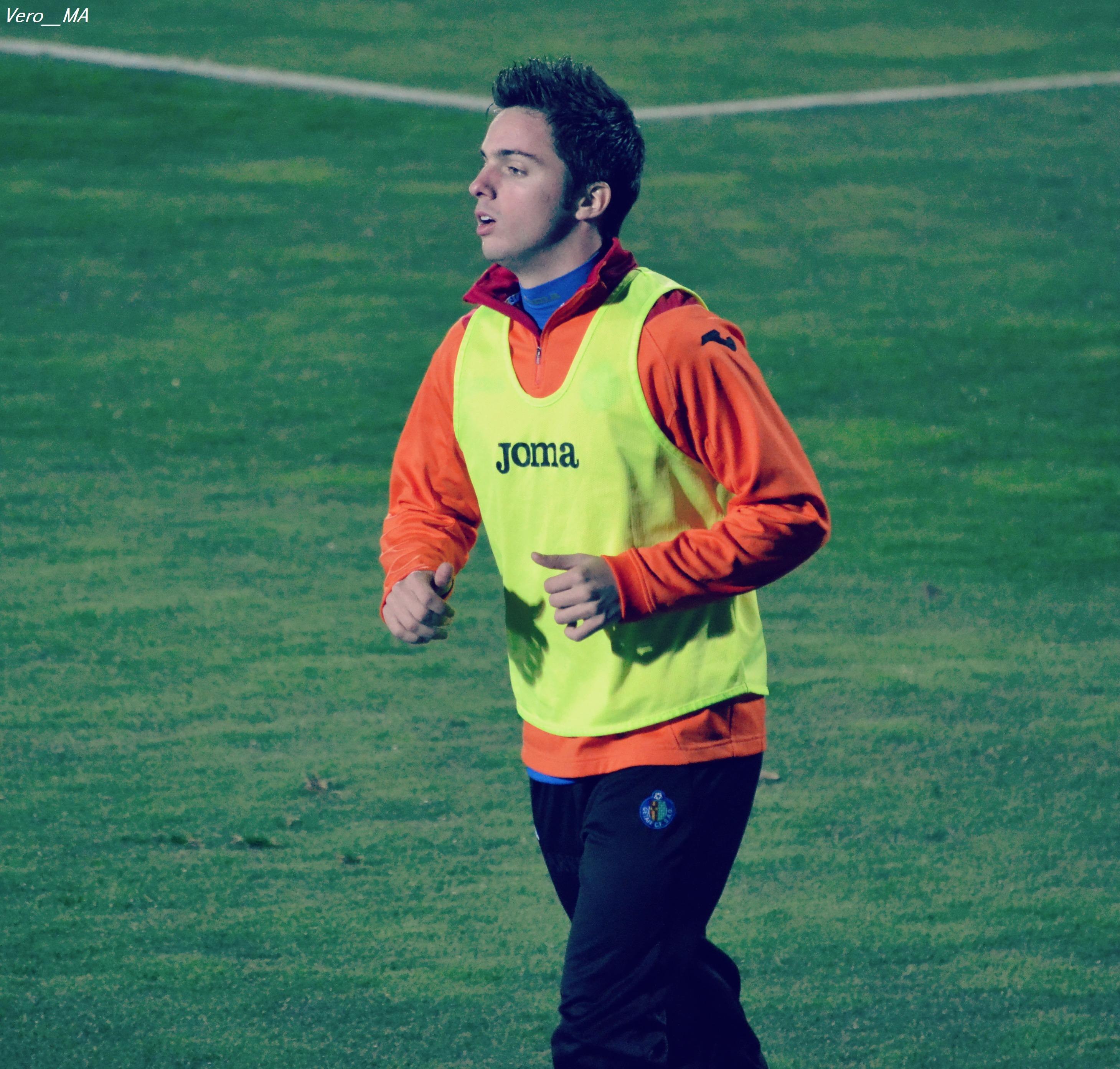 Pablo Sarabia, player of Getafe CF.